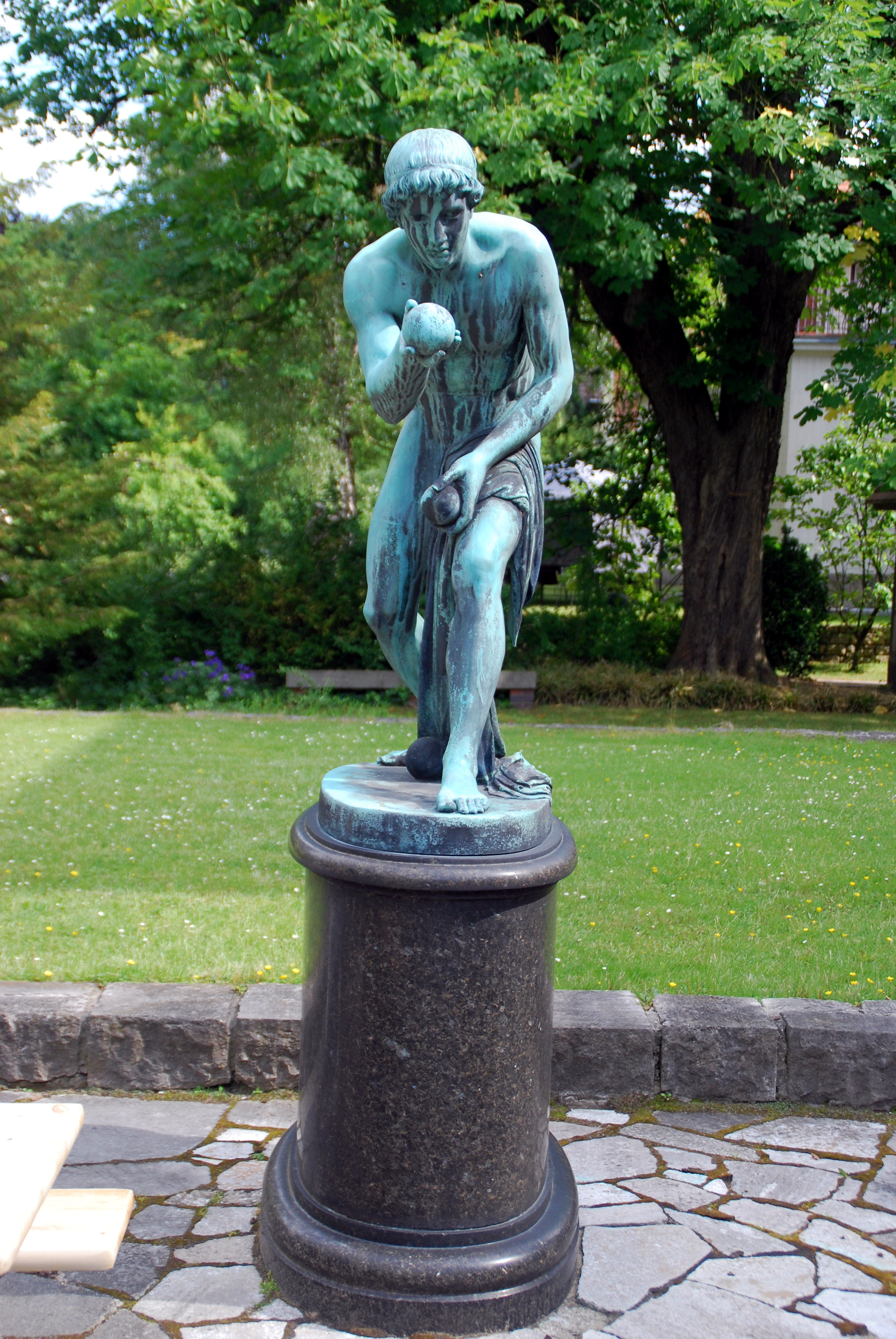 Ballplayer by Georg Christian Freund (1859), Copy at the Haus Wiegand, Berlin